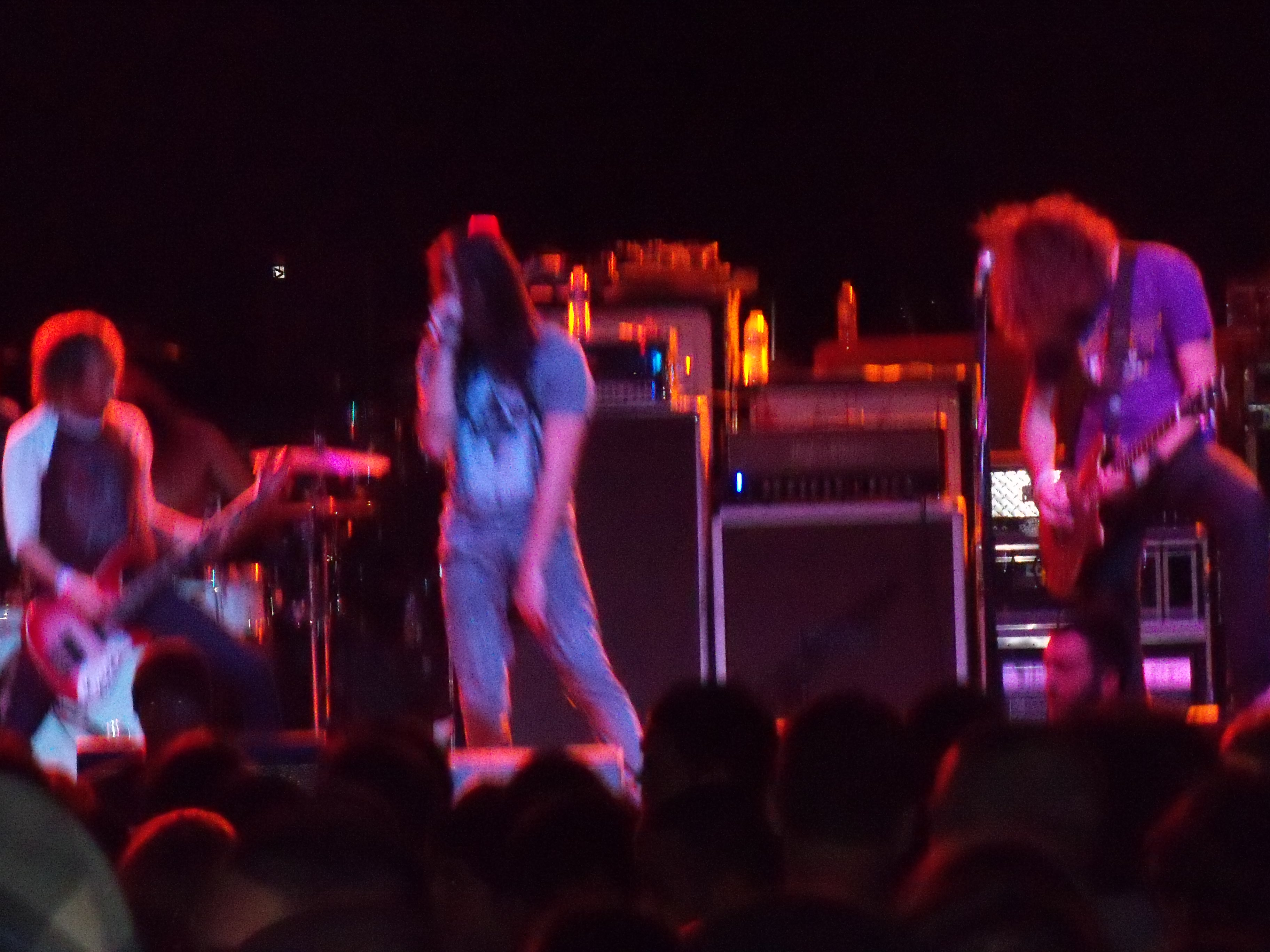 The band, In Fear and Faith performing in 2010 in Tempe, Arizona.